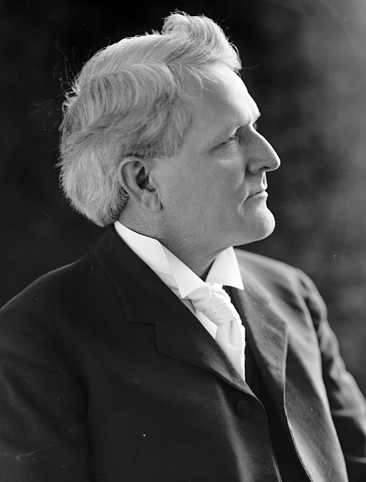 John W. Gaines, US Representative from Tennessee